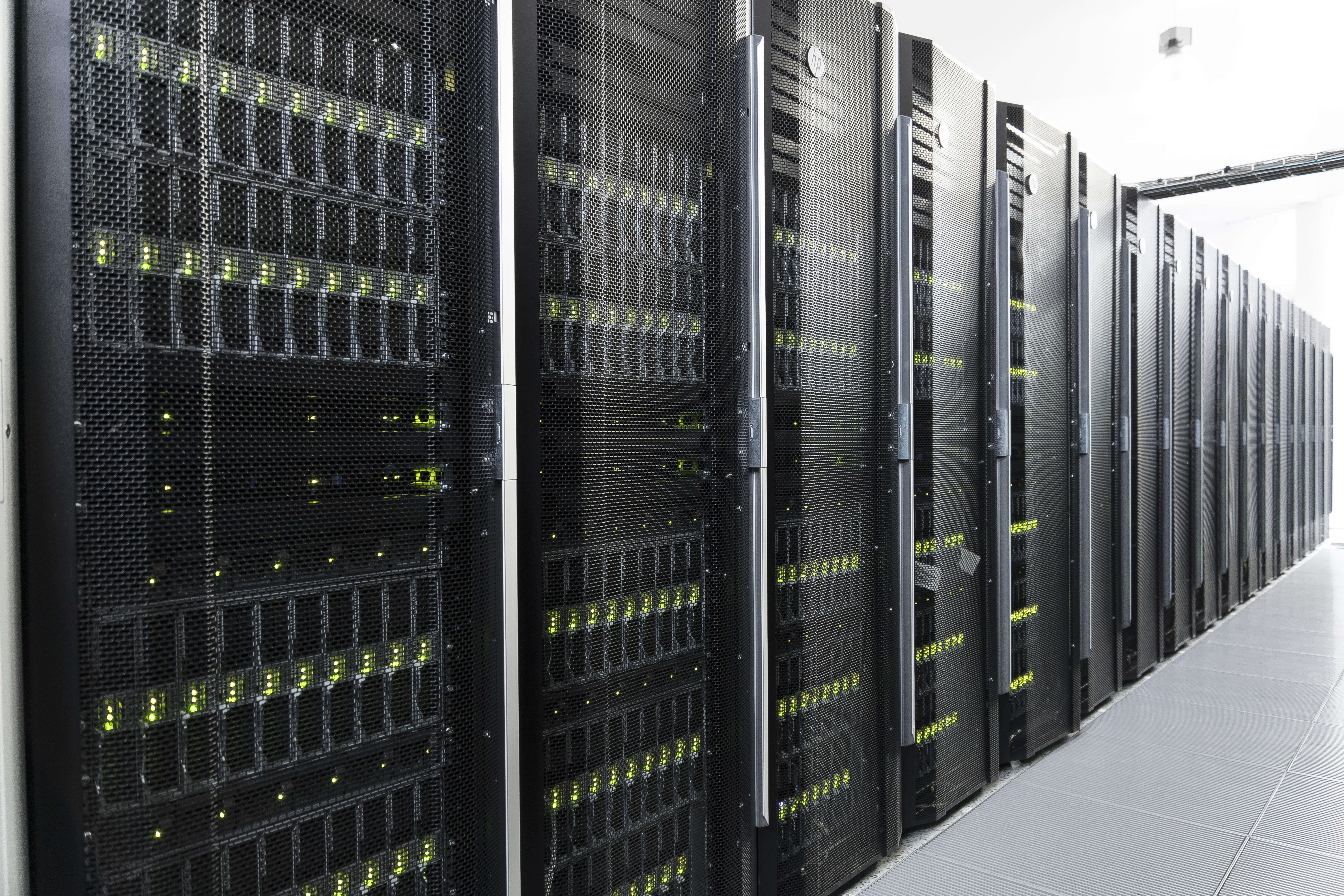 Supercomputer, at CI TASK in Gdansk University of Technology started on 2.3.2015